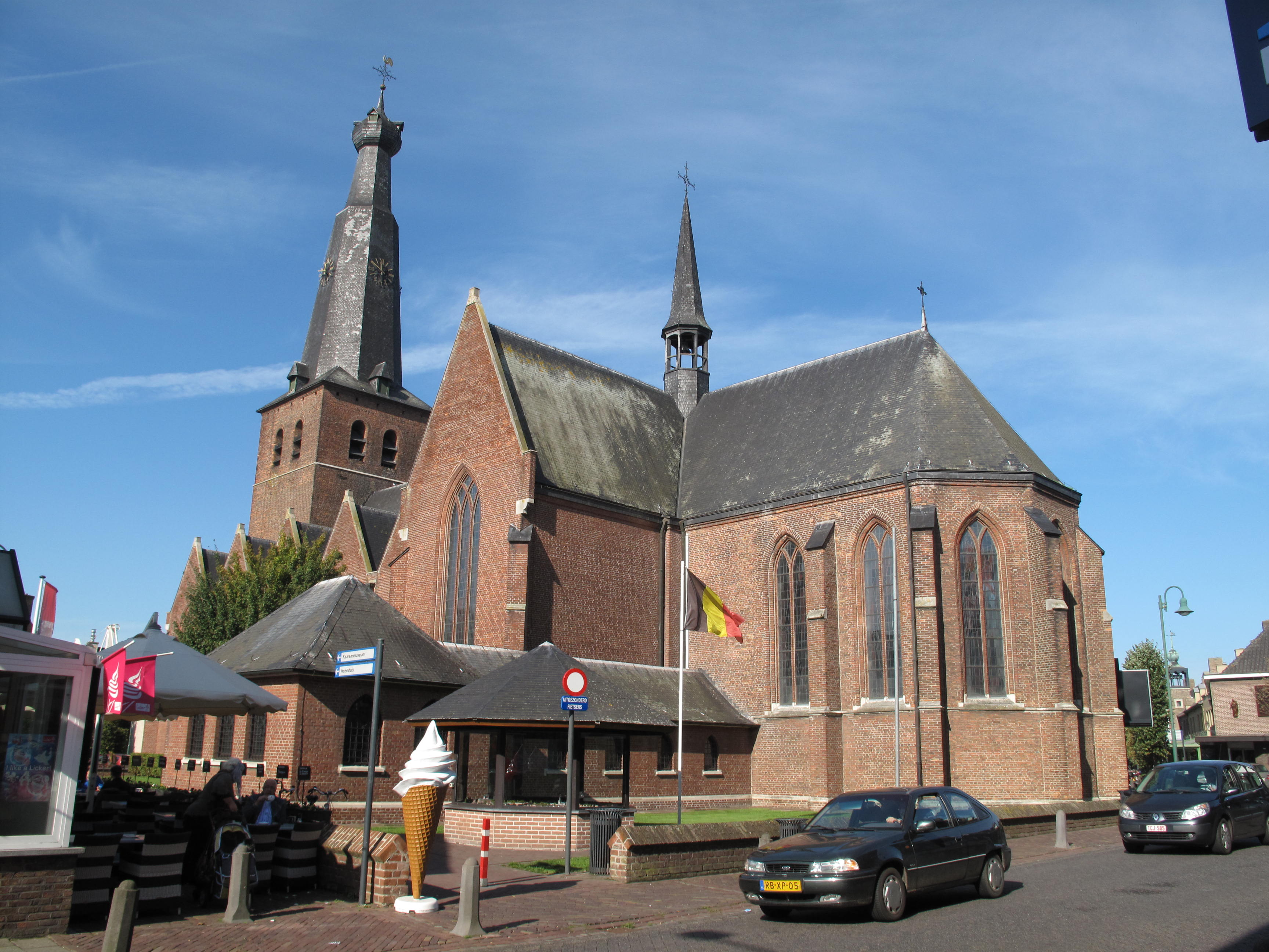 Baarle-Hertog, church: Sint-Remigiuskerk (Baarle)